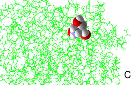 the structure model of Toxoplasma gondii Coronin